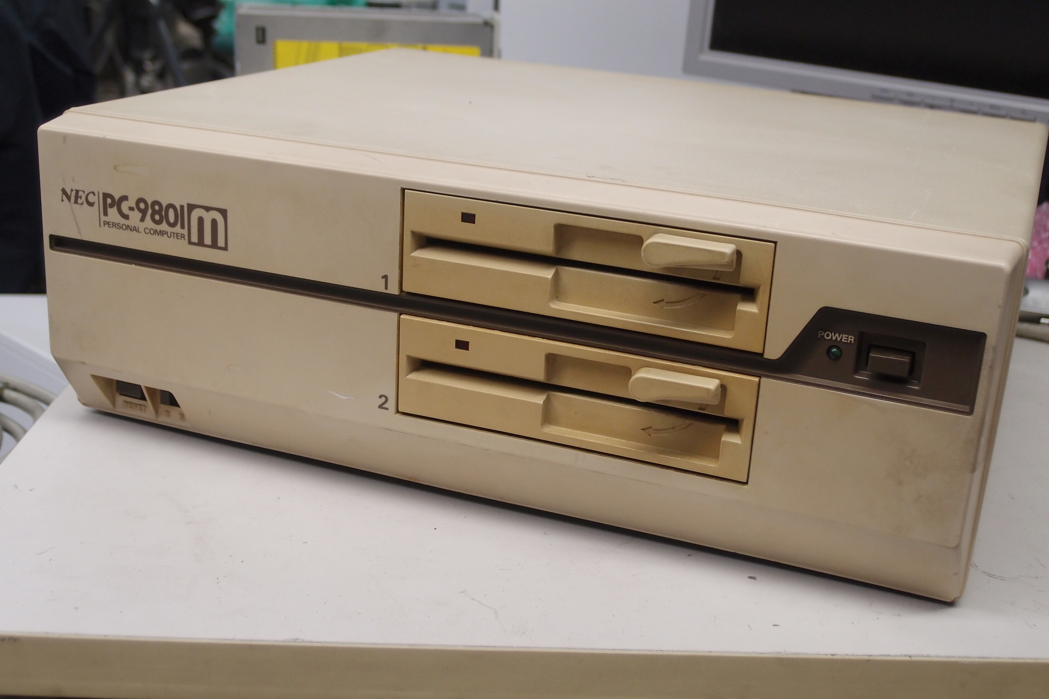 NEC PC-9801M2 personal computer (1984)